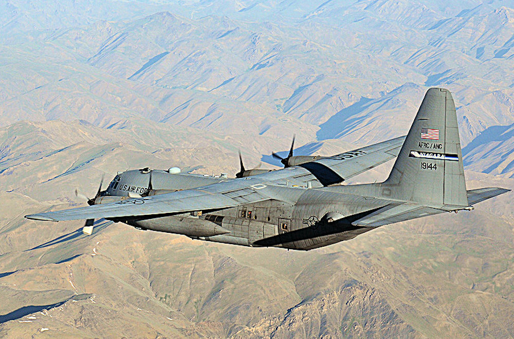 BAGRAM AIRFIELD, Afghanistan -- A C-130 Hercules from the New York Air National Guard flies over rugged Afghan landscape on its way to delivering much-needed supplies to a forward operating base in Oruzgan Province, Afghanistan, June 22. The New York ANG C-130 flew the airdrop mission in conjunction with another C-130 from the Alaska ANG. Airdrops help mitigate the danger of transporting supplies via convoy. (U.S. Air Force photo by Senior Airman Krista Rose.)